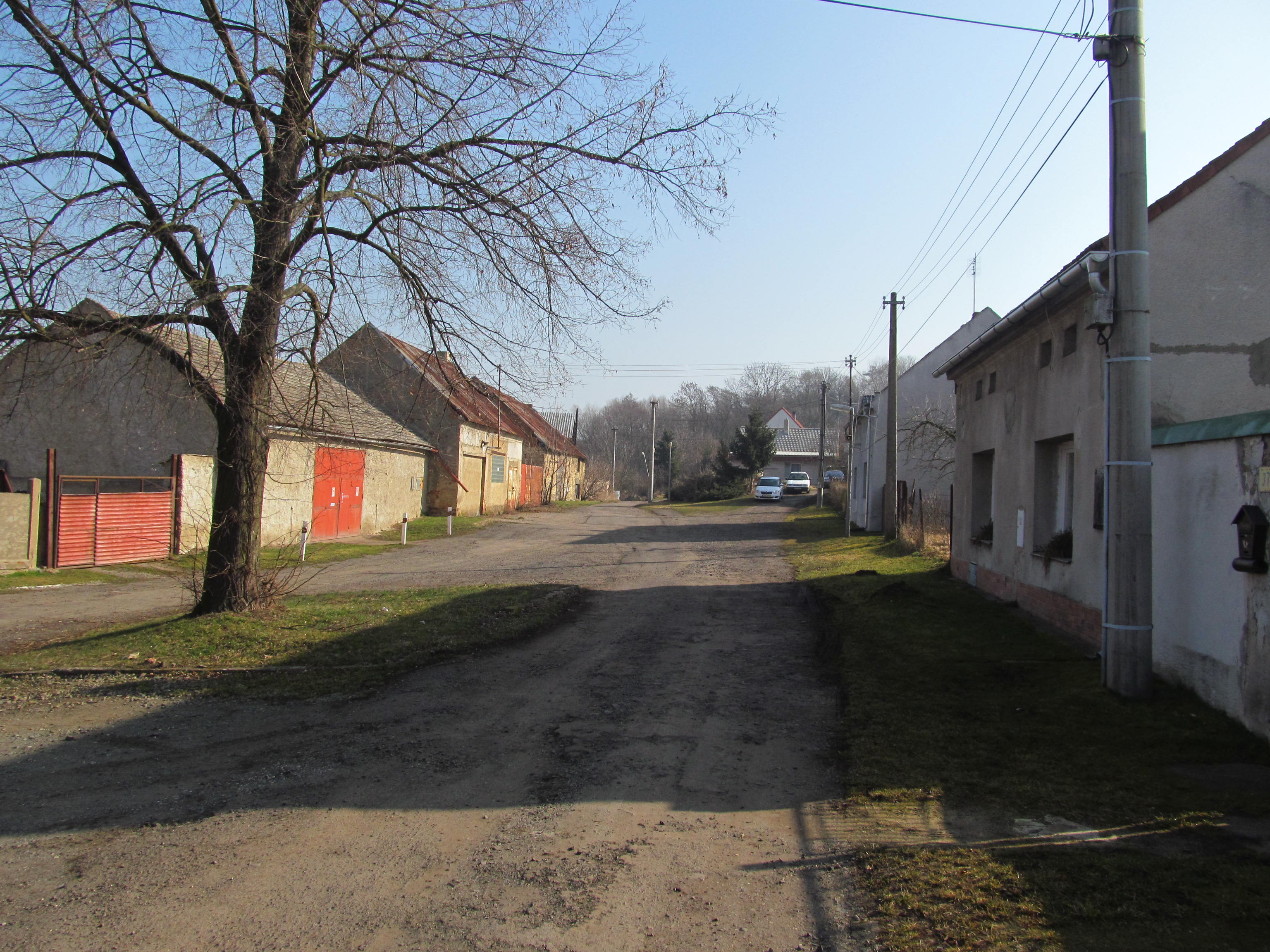 Village square in Seletice